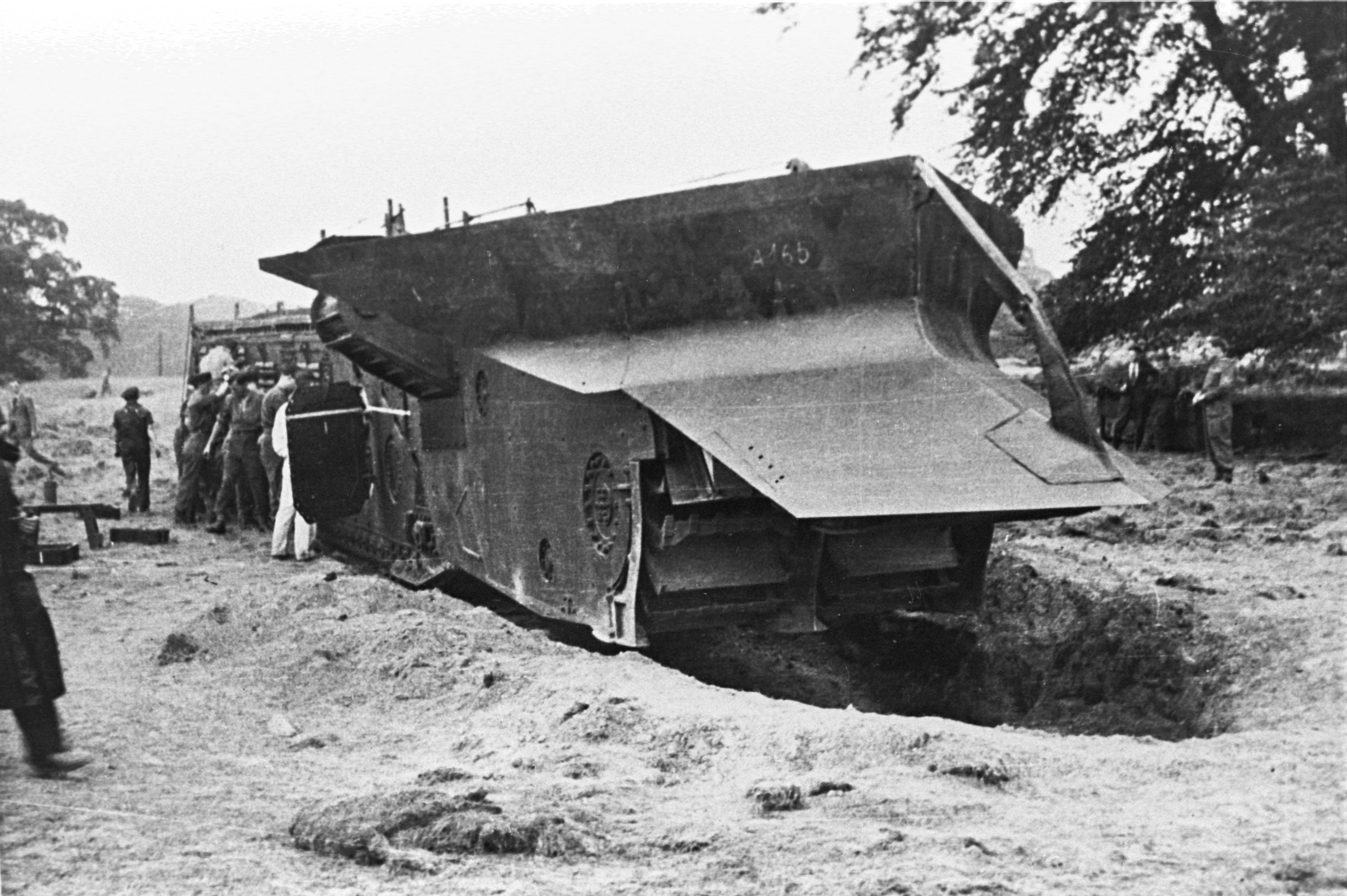 A view of the Land Excavating Trenching otherwise known as White Rabbit No. 6, Cultivator No. 6 or Nellie. This machine was an underground tank developed in 1939-1940 and designed to travel across no-man's land in a trench of its own making. Nellie above ground front three quarters view.